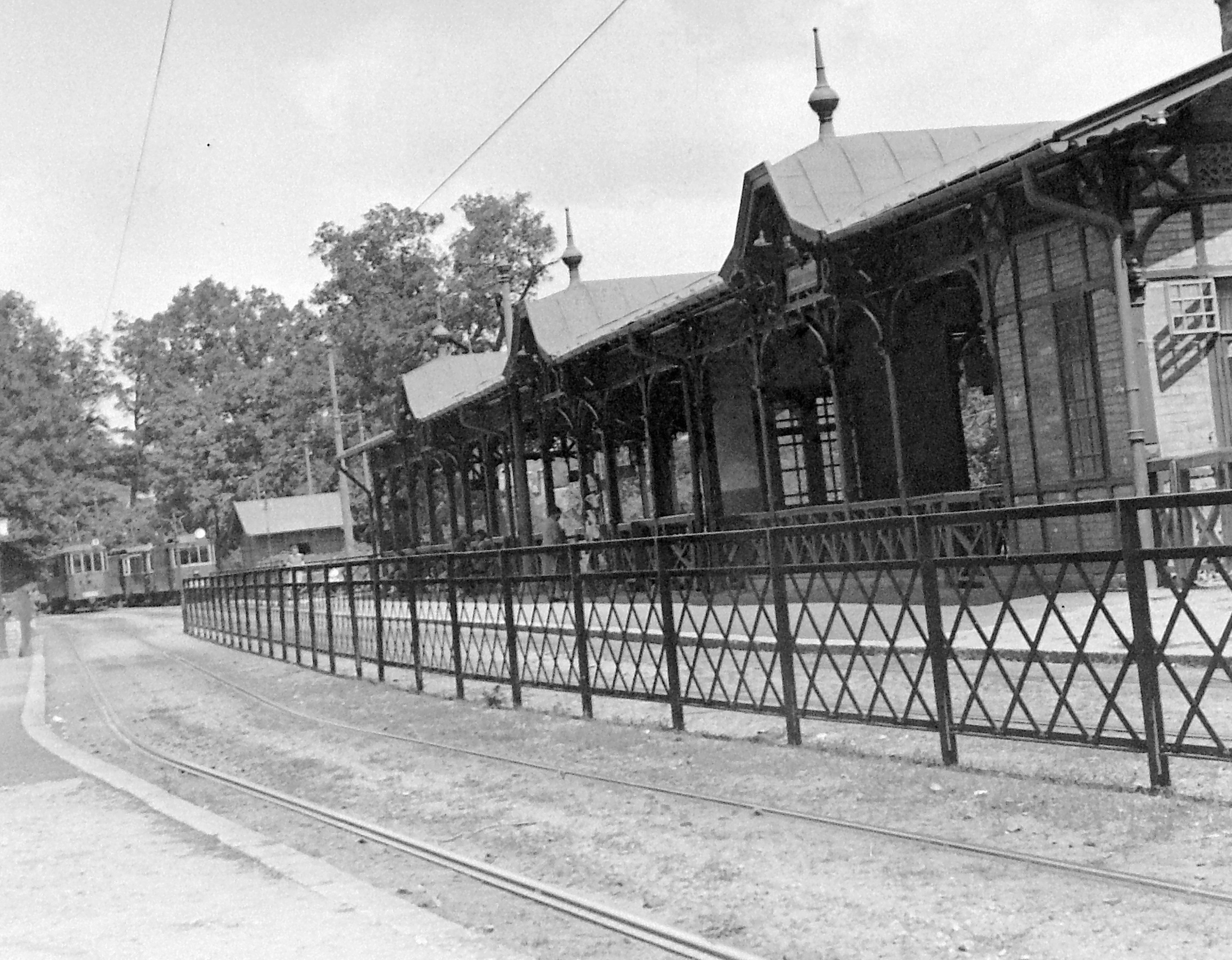 Location: Hungary, Budapest II. Tags: tram, Budapest